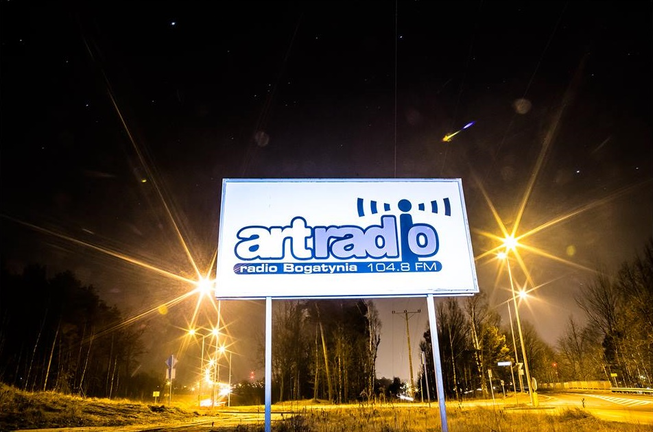 logo ArtRadia